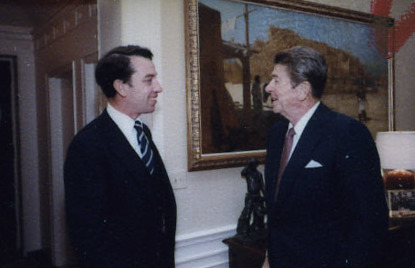 President Reagan, Charles Grassley (2A-3A) President Reagan, Howell Heflin( 4A-8A) President Reagan, William Cohen (9A-11A)